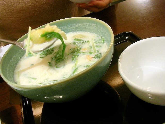 Chinese soy milk soup with wonton.